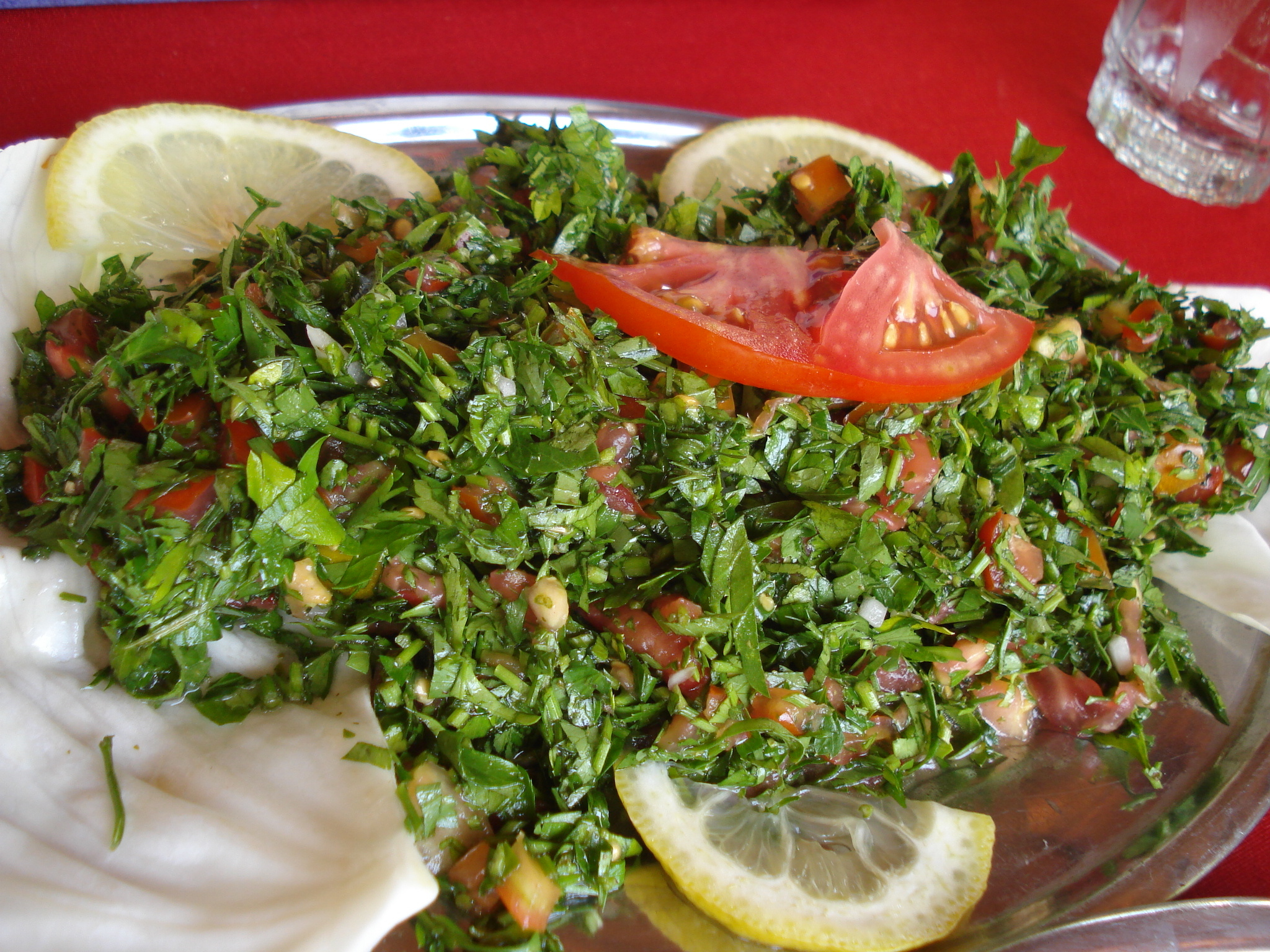 Tabboulih